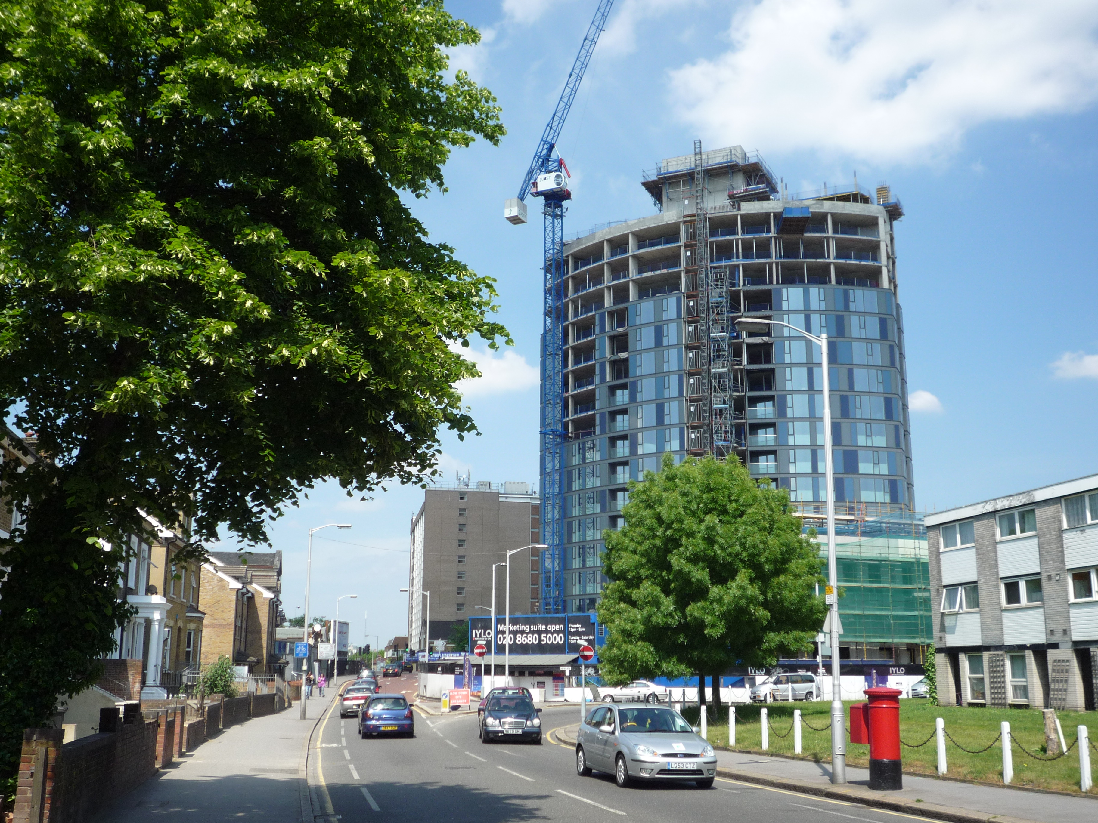 The new IYLO tower block under construction in Croydon, London, England. Seen from grid reference TQ 3236 6640 in Wellesley Road looking NNE. The developers are, for some reason, keen to stress that it is an 100% private residential development. On the left the Croydon transmitter can just be made out in the distance.